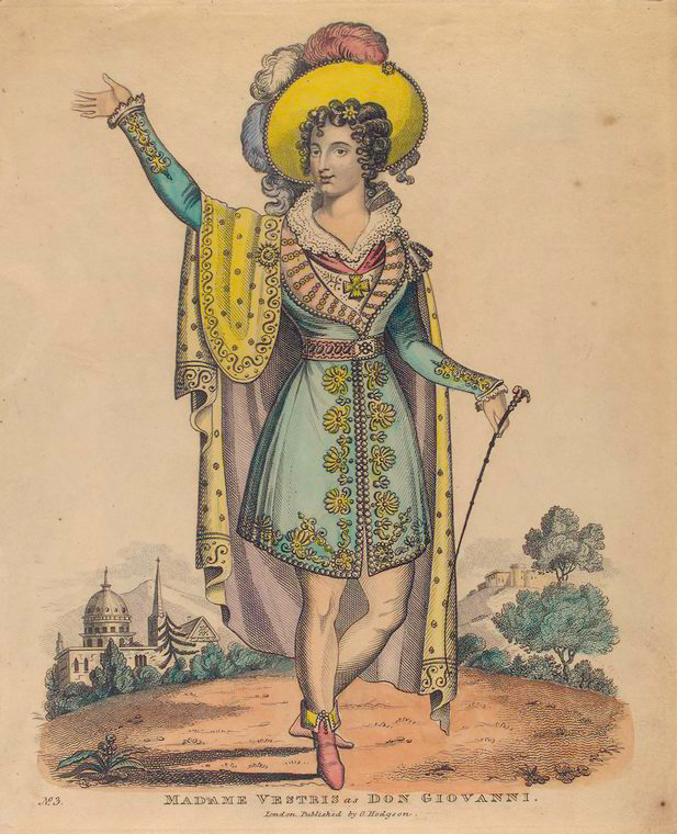 Lucia Elisabeth Vestris (née Barolozzi) as Don Giovanni in in Moncrieff's burlesque Giovanni in London (etching, hand-coloured)